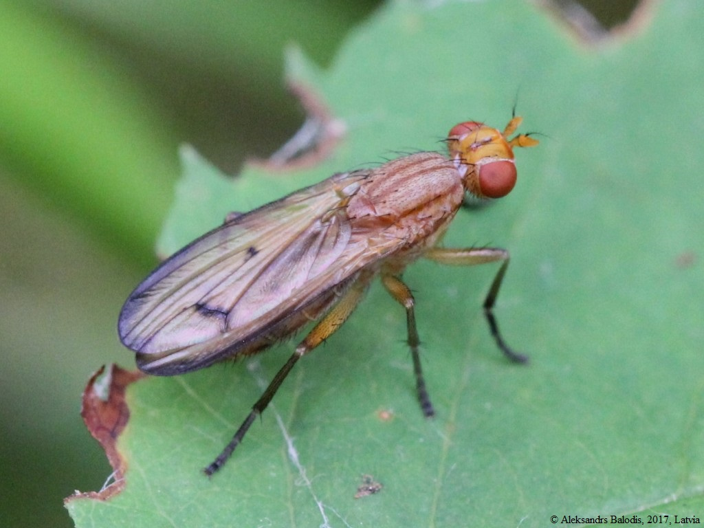 Tetanocera phyllophora